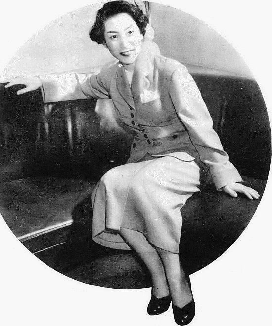 Hanayo Sumi